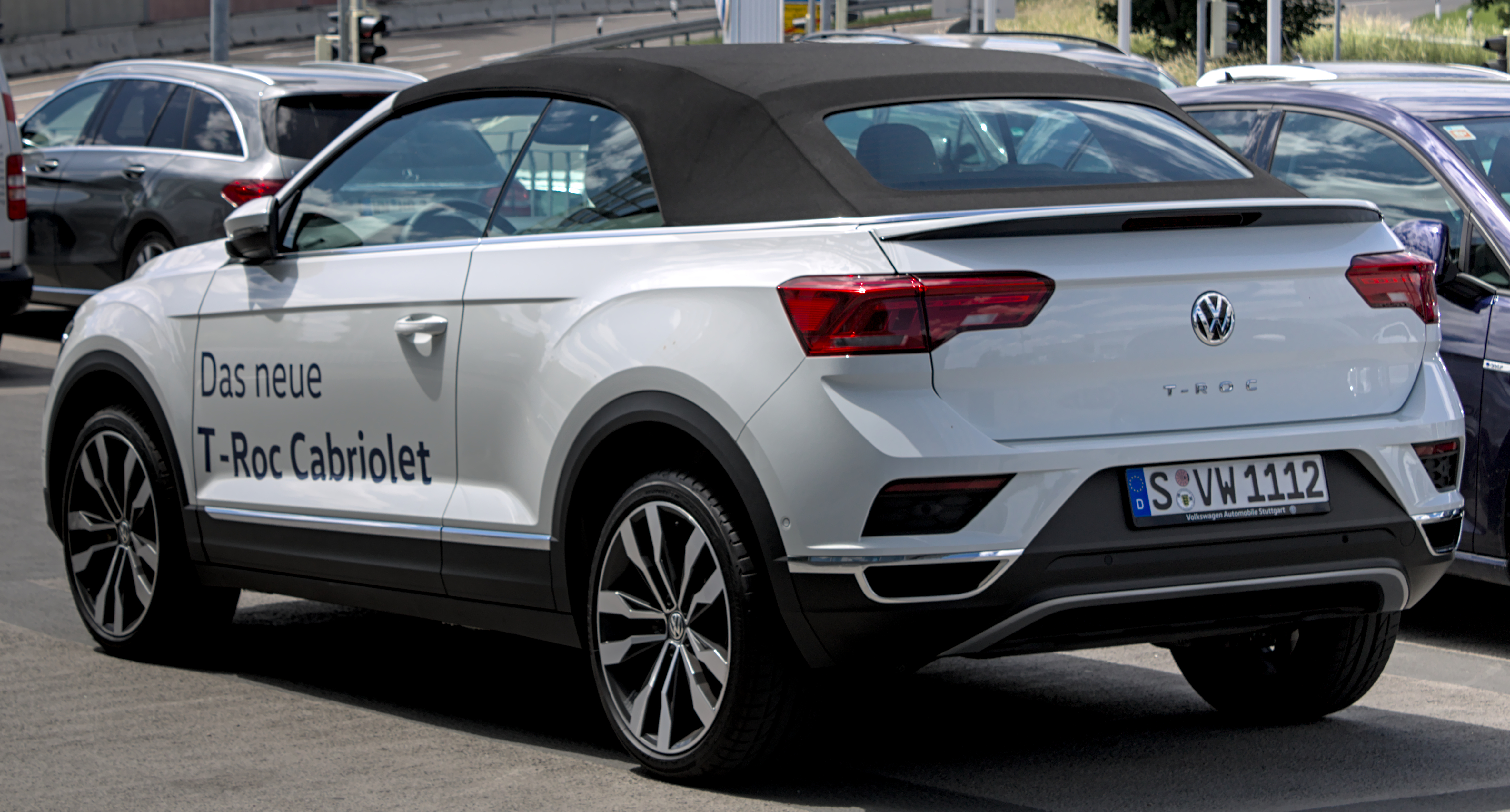 Volkswagen_T-Roc_Cabriolet in Stuttgart-Vaihingen